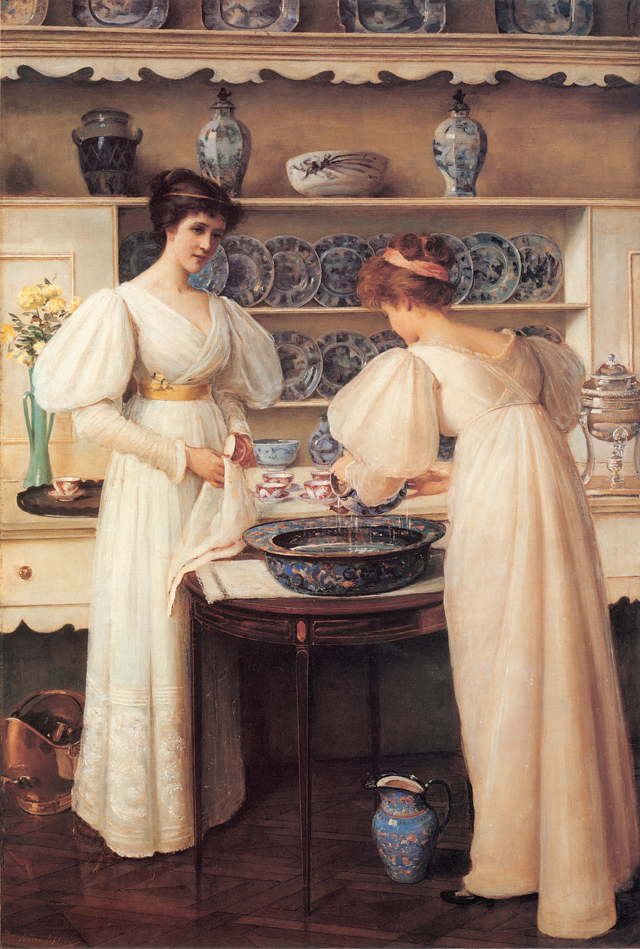 Two girls in white, washing blue china.